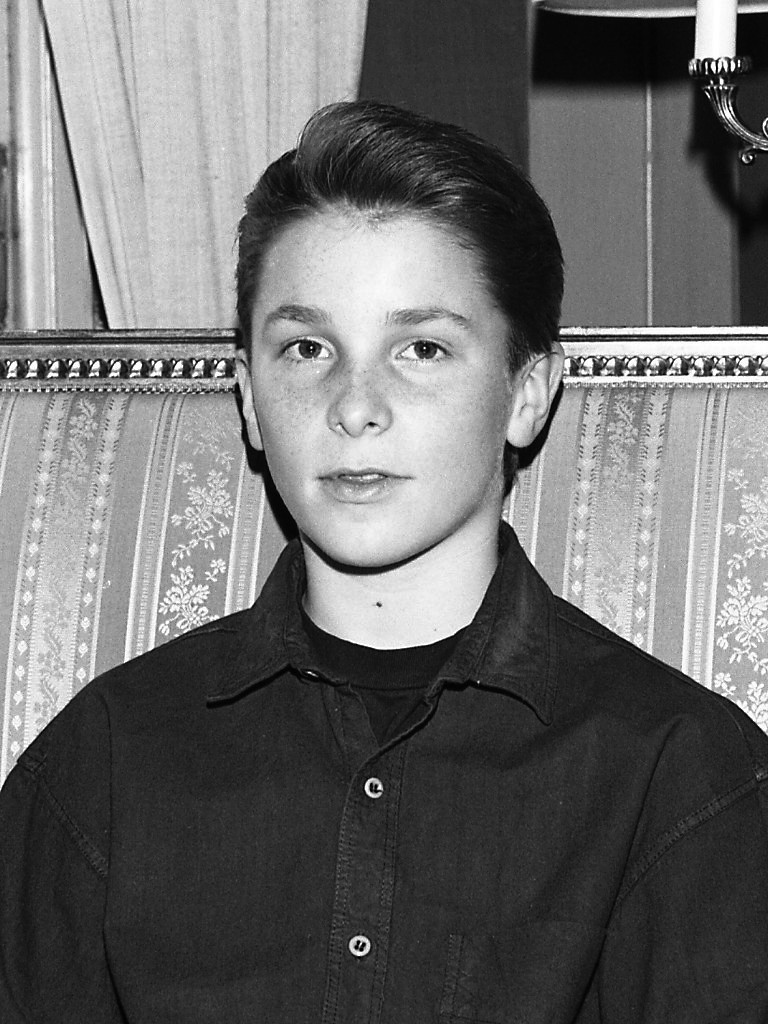 Christian Bale in Sweden to promote "Empire of the sun"